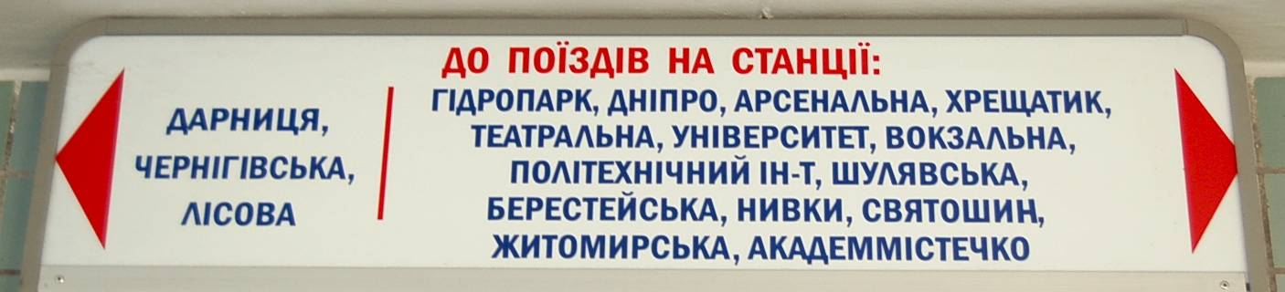 Information board in metro (Kyiv, Ukraine).